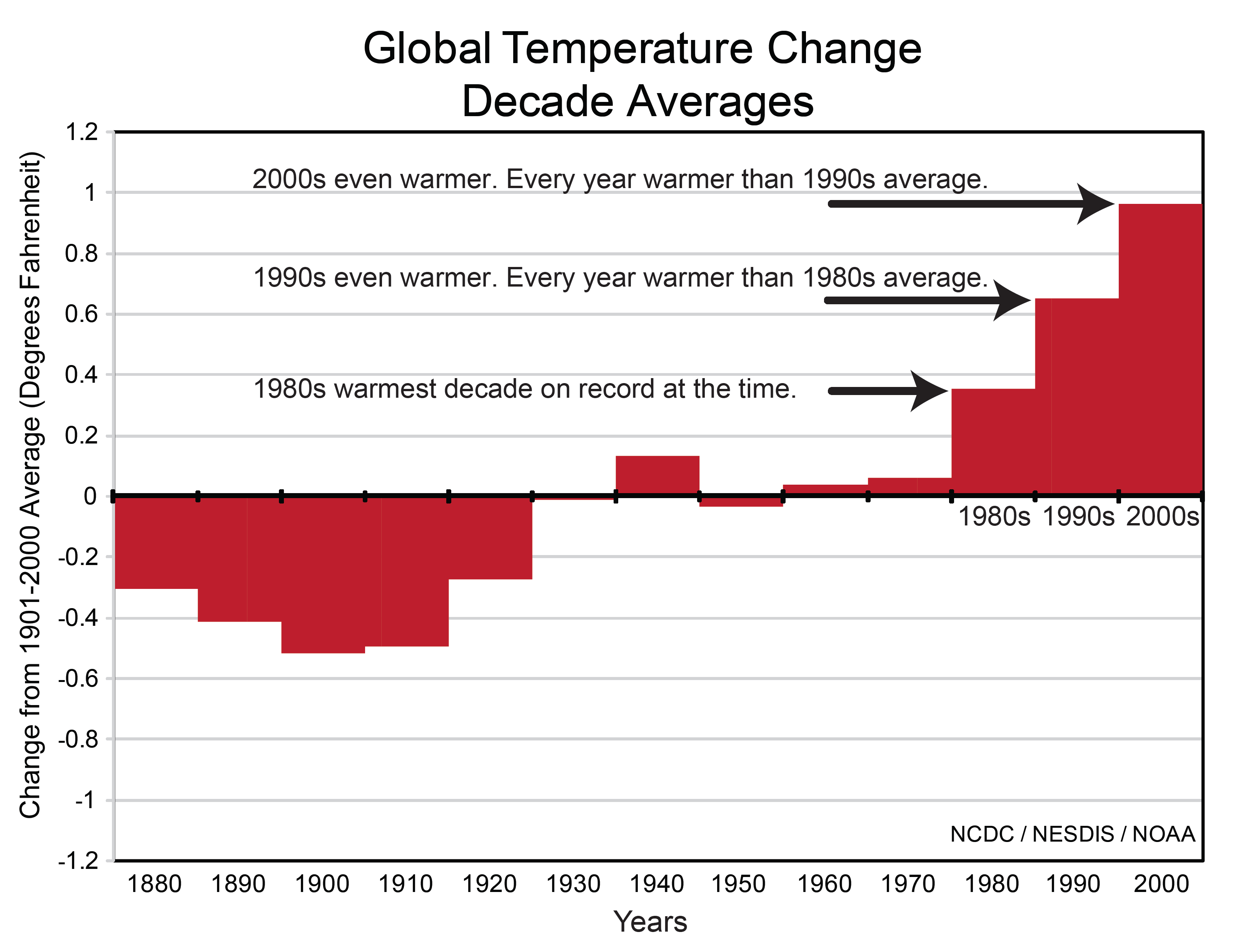 This bar graph shows changes in global mean temperature between the 1880s and 2000s. Temperature changes are averaged over each decade. From the public-domain source: "While year-to-year changes in temperature often reflect natural climatic variations such as El Niño/La Niña events, changes in average temperature from decade to decade reveal a long-term warming. Each of the last three decades has been much warmer than the decade before it, with each one setting a new and significant record for the highest global temperature. At the time, the 1980s was the hottest decade on record. But in the 1990s, every year was warmer than the average of the previous decade, and the 2000s were warmer still." Data Temperature changes are measured against the 1901-2000 average, and are measured in degrees Fahrenheit. Values given below have been read from the graph and are therefore approximate: 1880s: -0.3 1890s: -0.4 1900s: -0.5 1910s: -0.5 1920s: -0.26 1930s: -0.02 1940s: +0.12 1950s: -0.03 1960s: +0.03 1970s: +0.06 1980s: +0.35 1990s: +0.65 2000s: +0.95